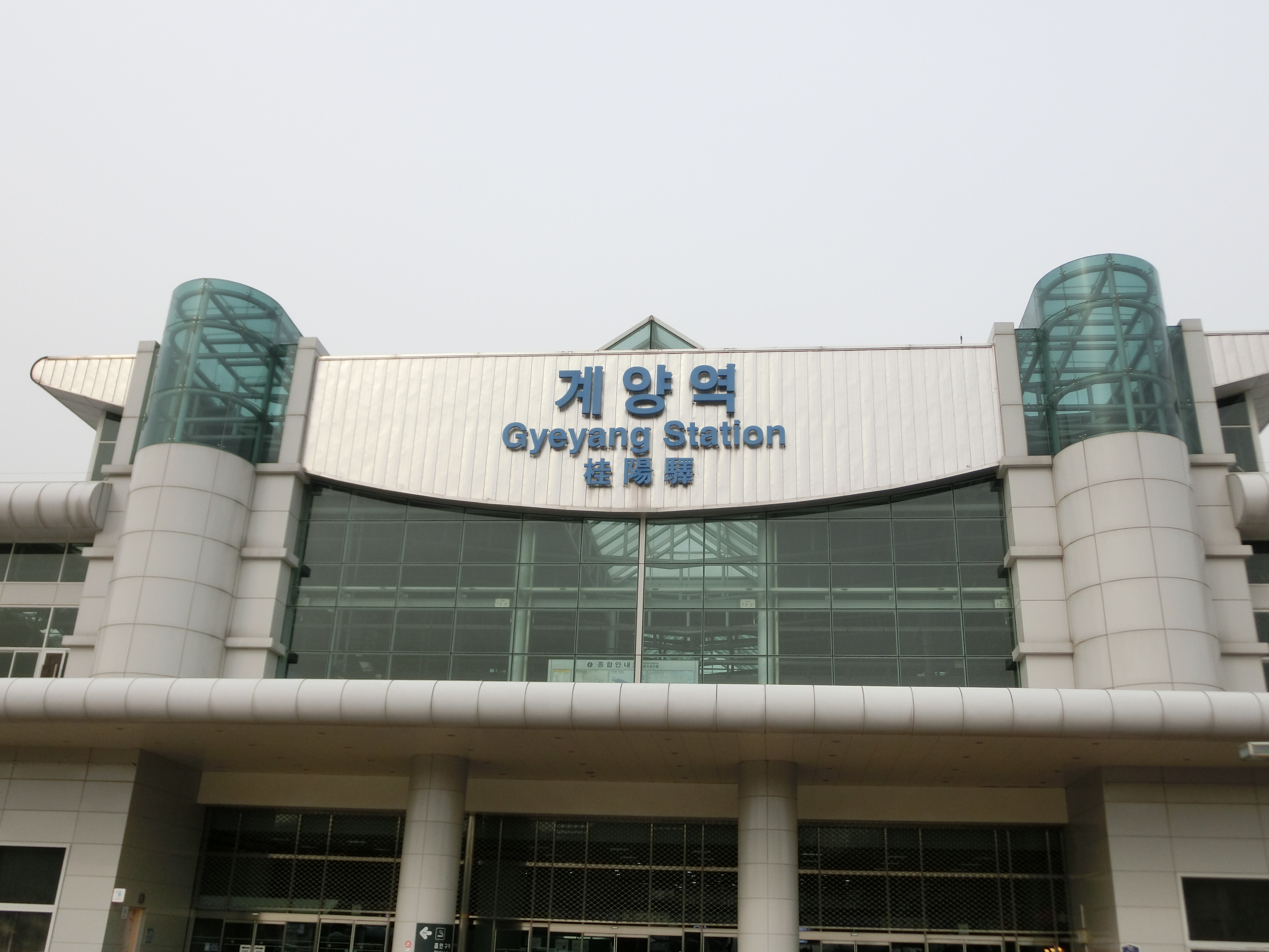 Gyeyang Station